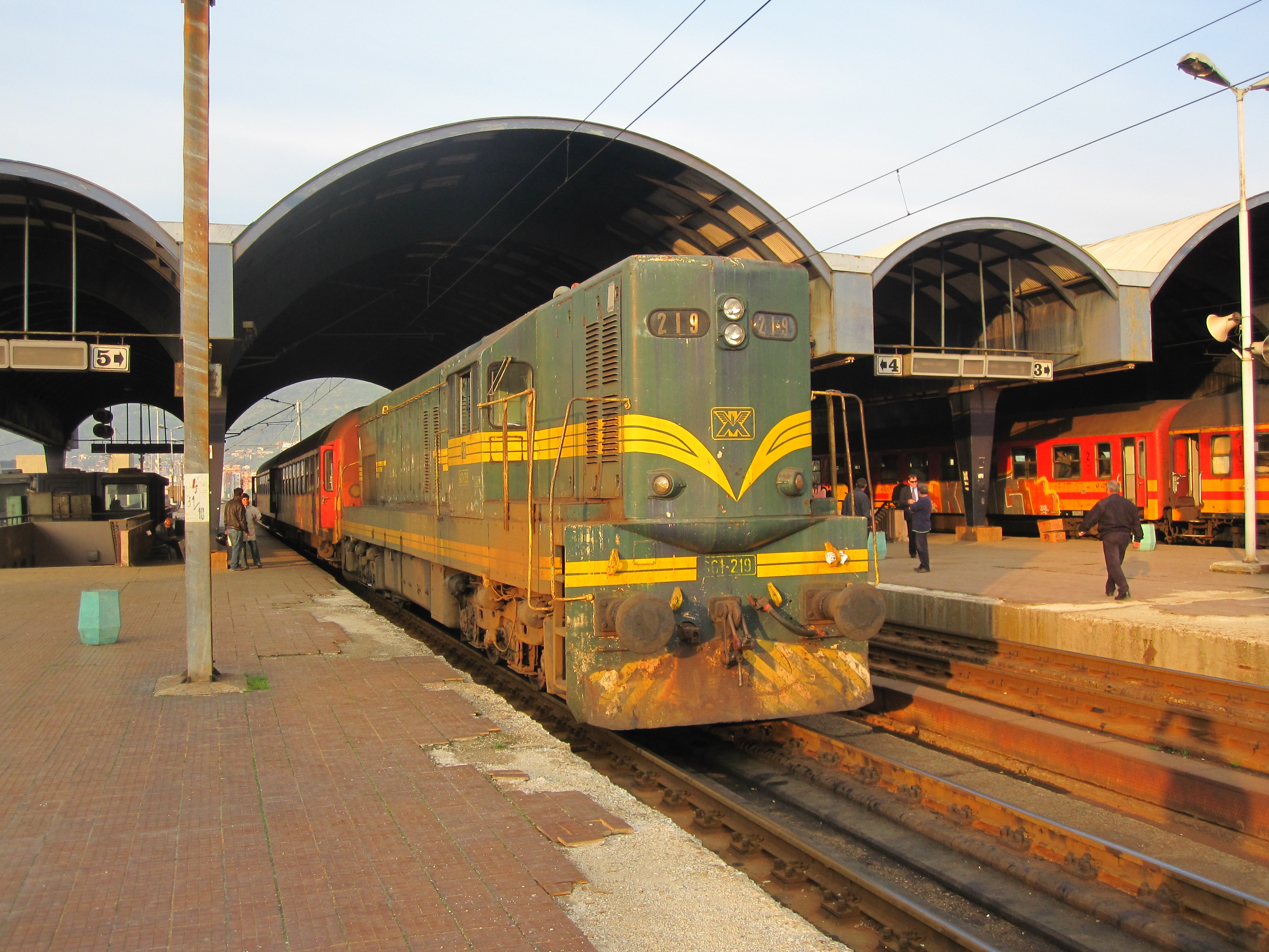 Close up shot of 661.219 on the 2-coach working to Kičevo.